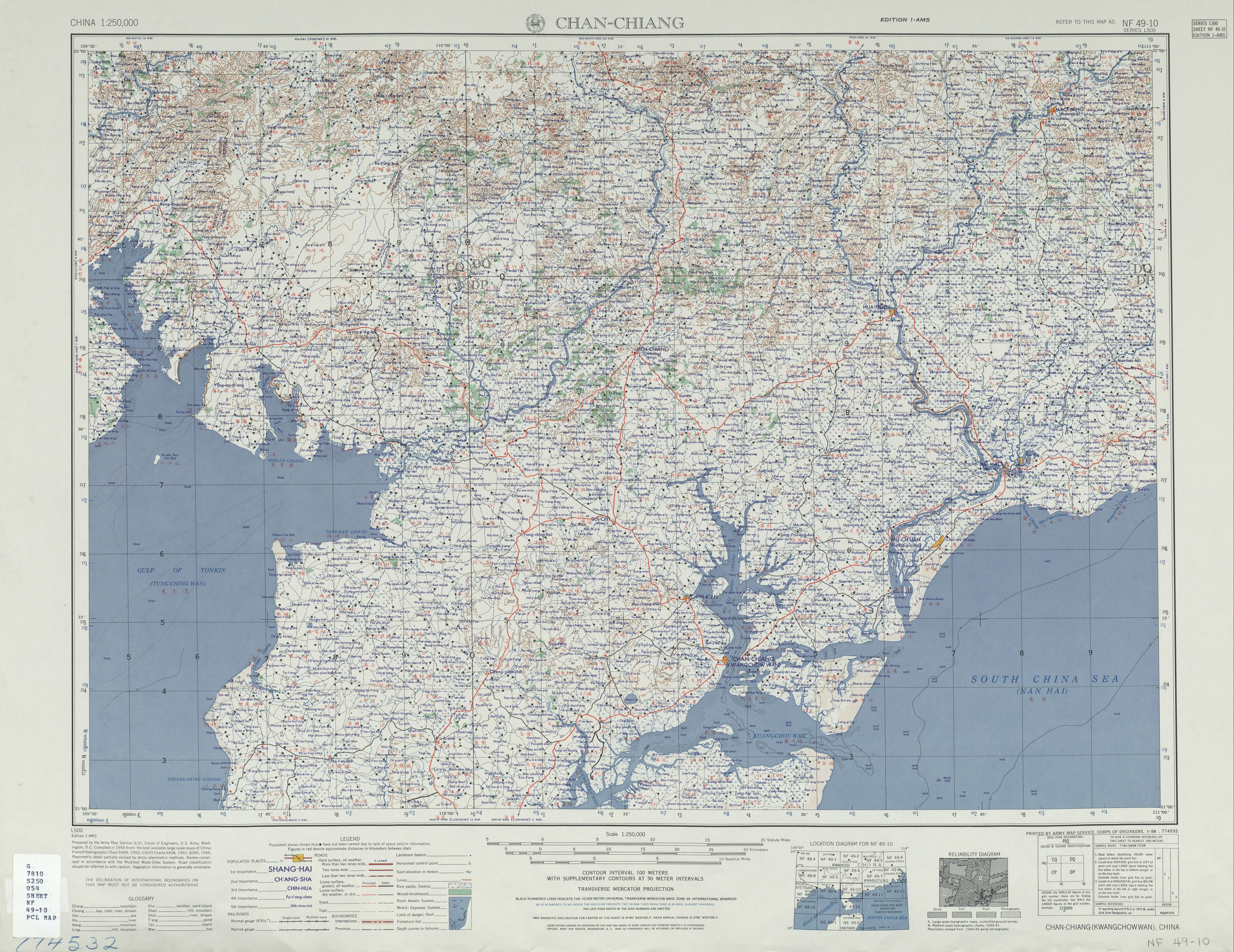 Map of Zhanjiang (Chan-chiang, Kwangchowwan), Guangdong area